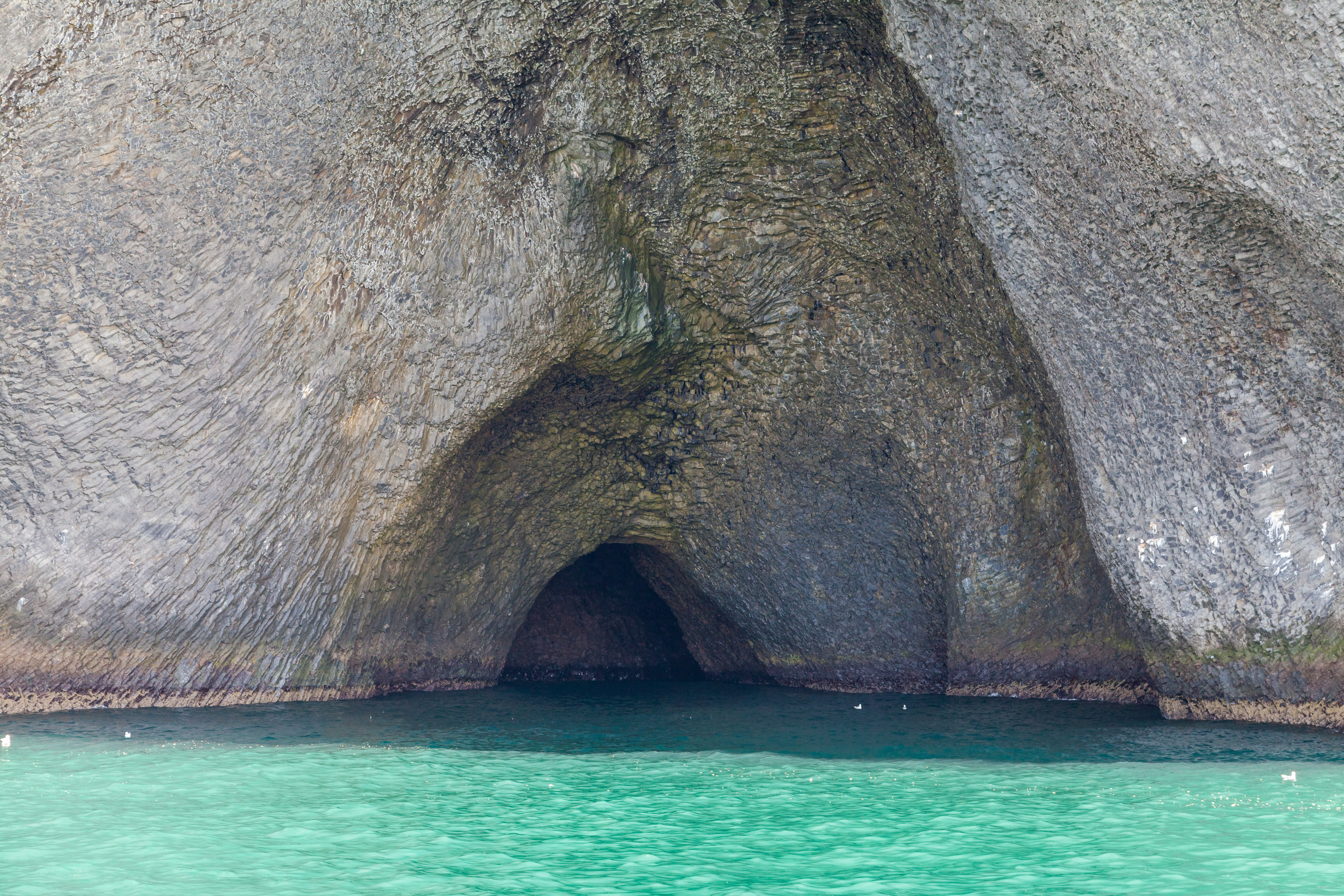 Cave in the cliffs of Heimaey, Westman Islands, Suðurland, Iceland